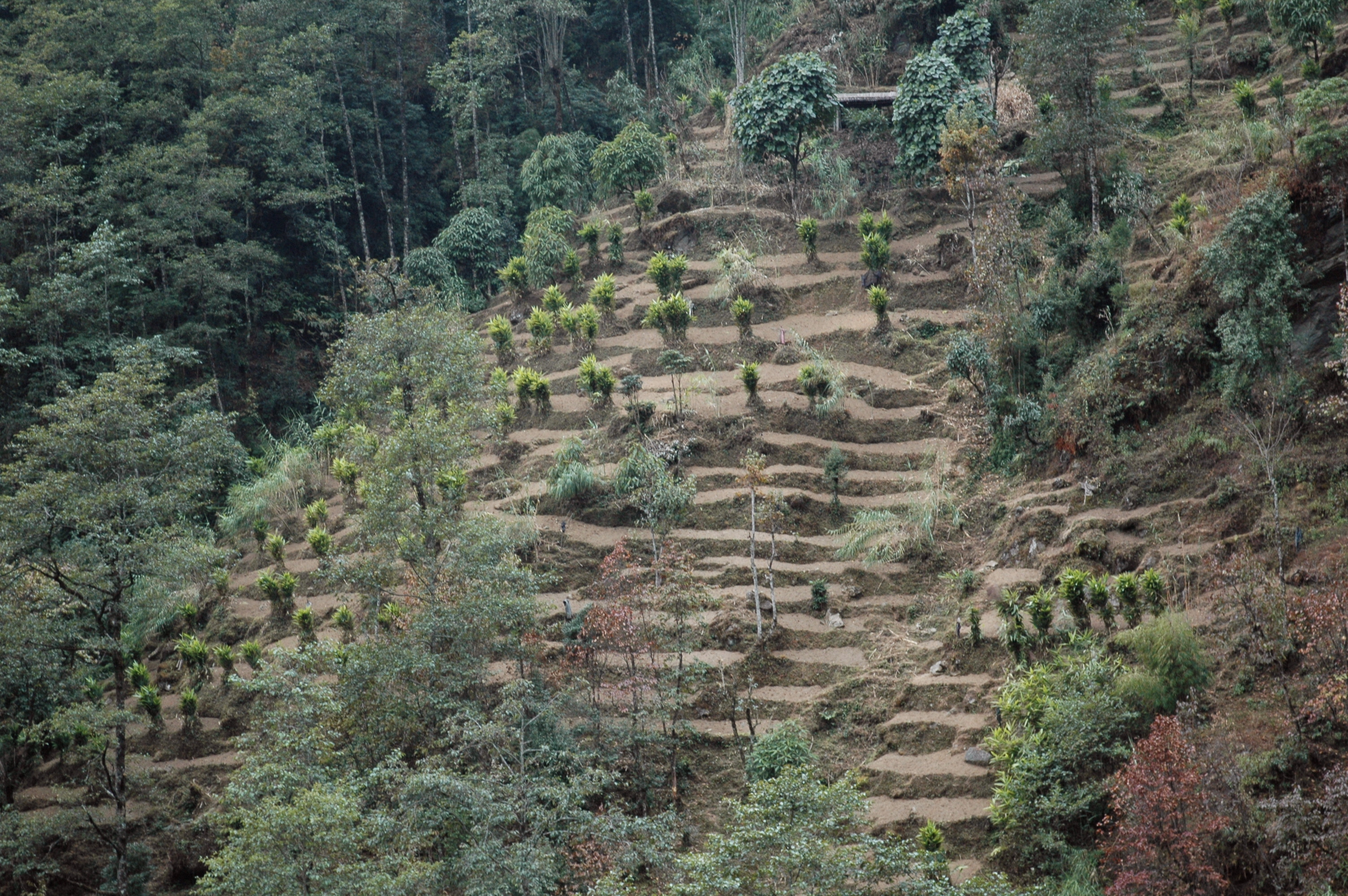 Cardamom plants on terraces, India